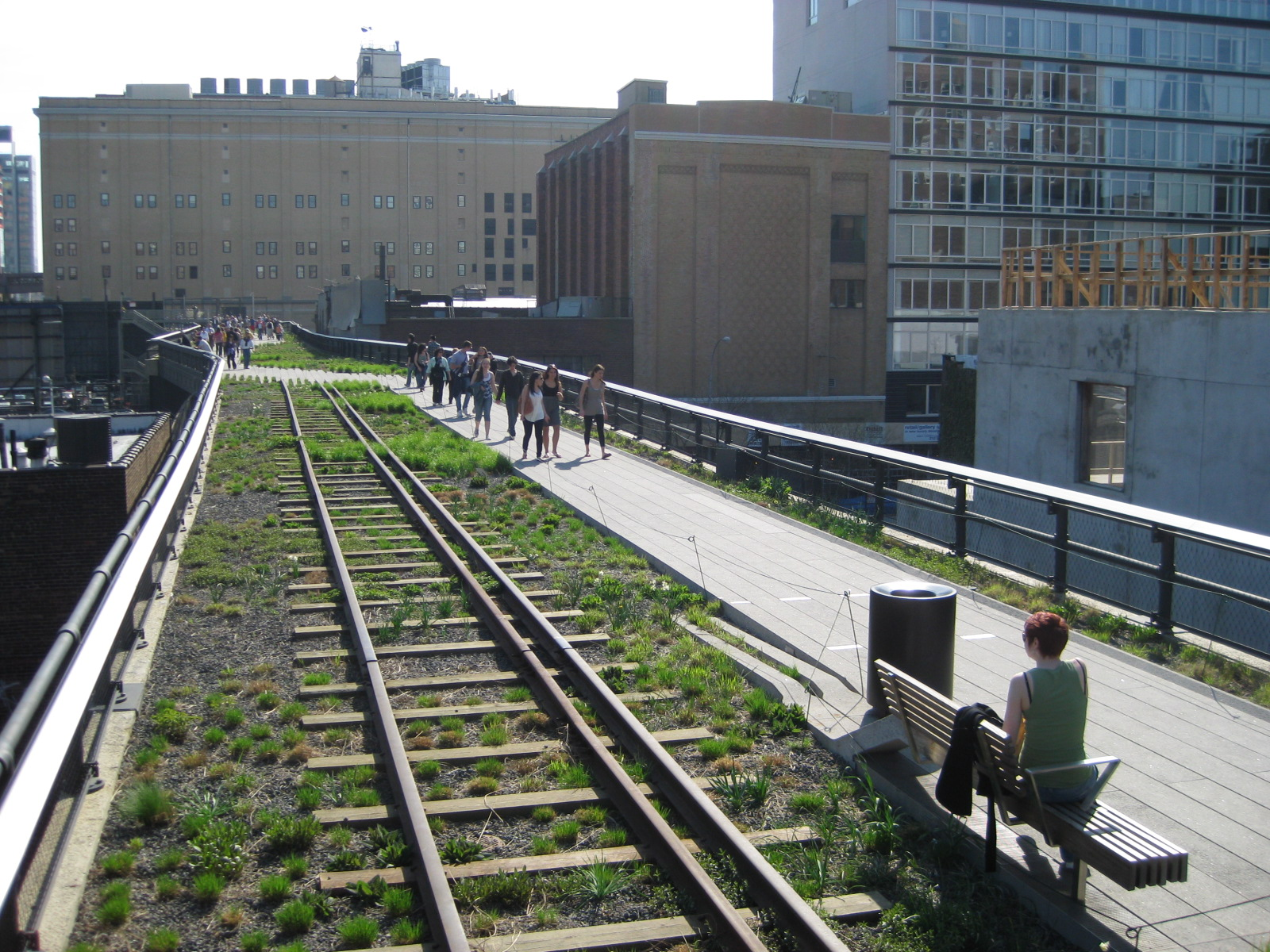 Highline in New York